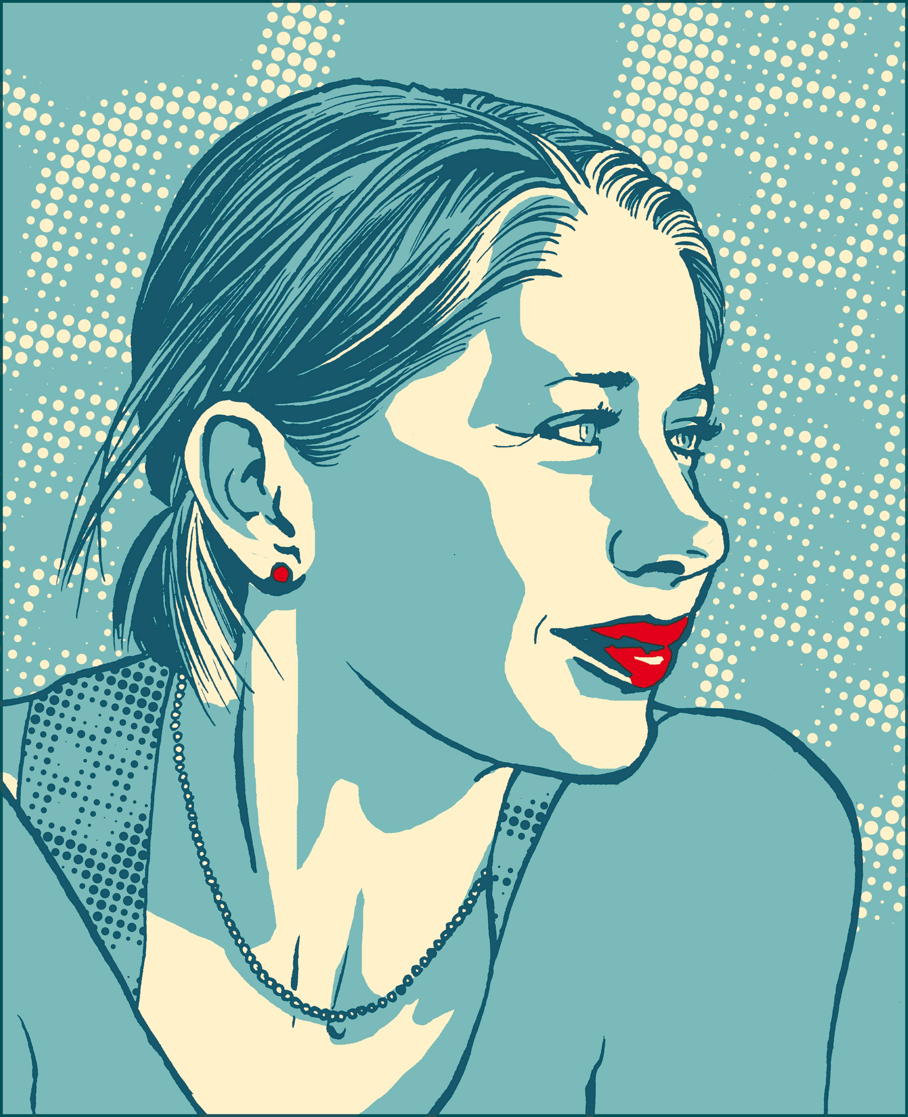 Self portrait of the artist Kat Menschik